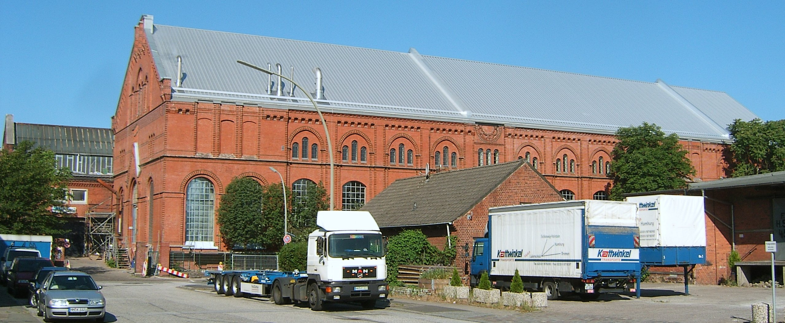 Die Zentralstation der Hamburgischen Electricitäts-Werke wurde 1899 bis 1901 als eines der ersten Hamburger Großkraftwerke am Bullerdeich in Hammerbrook errichtet. This is the photograph of an architectural monument. It is part of the list of cultural monuments of Hamburg, no. 1835